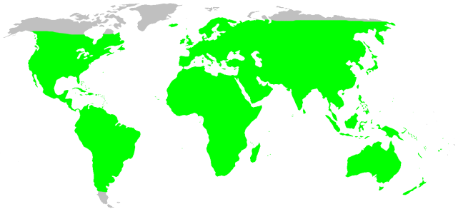 Corinnidae habitat distribution, drawn after Platnick: World Spider Catalog 7.0. This is not at all a precise rendering of the distribution! If you have better information, please replace this map, or send me the info, and i will redraw it.